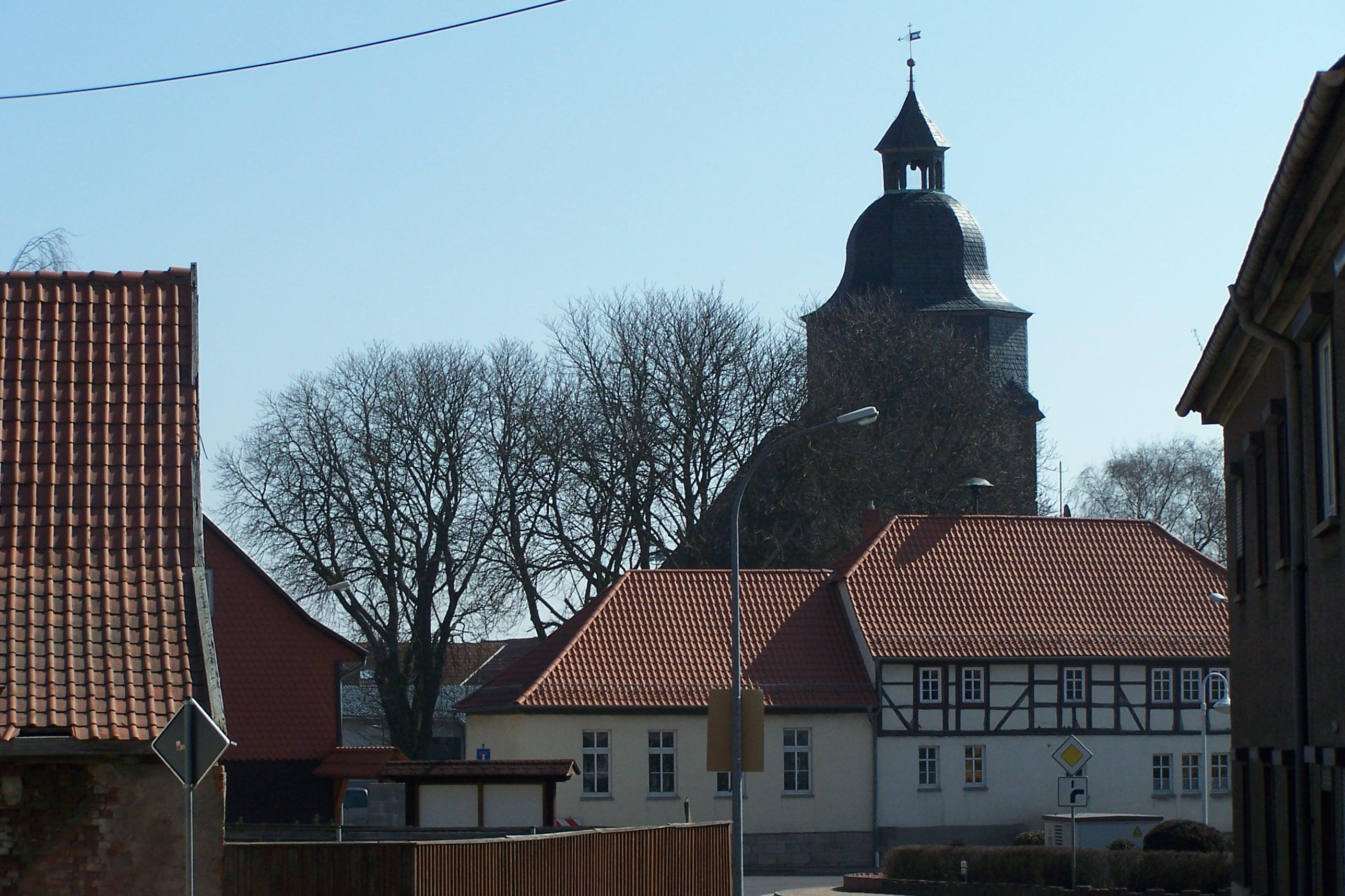 In Oesterbehringen.